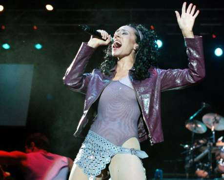 Spanish singer Mónica Naranjo.